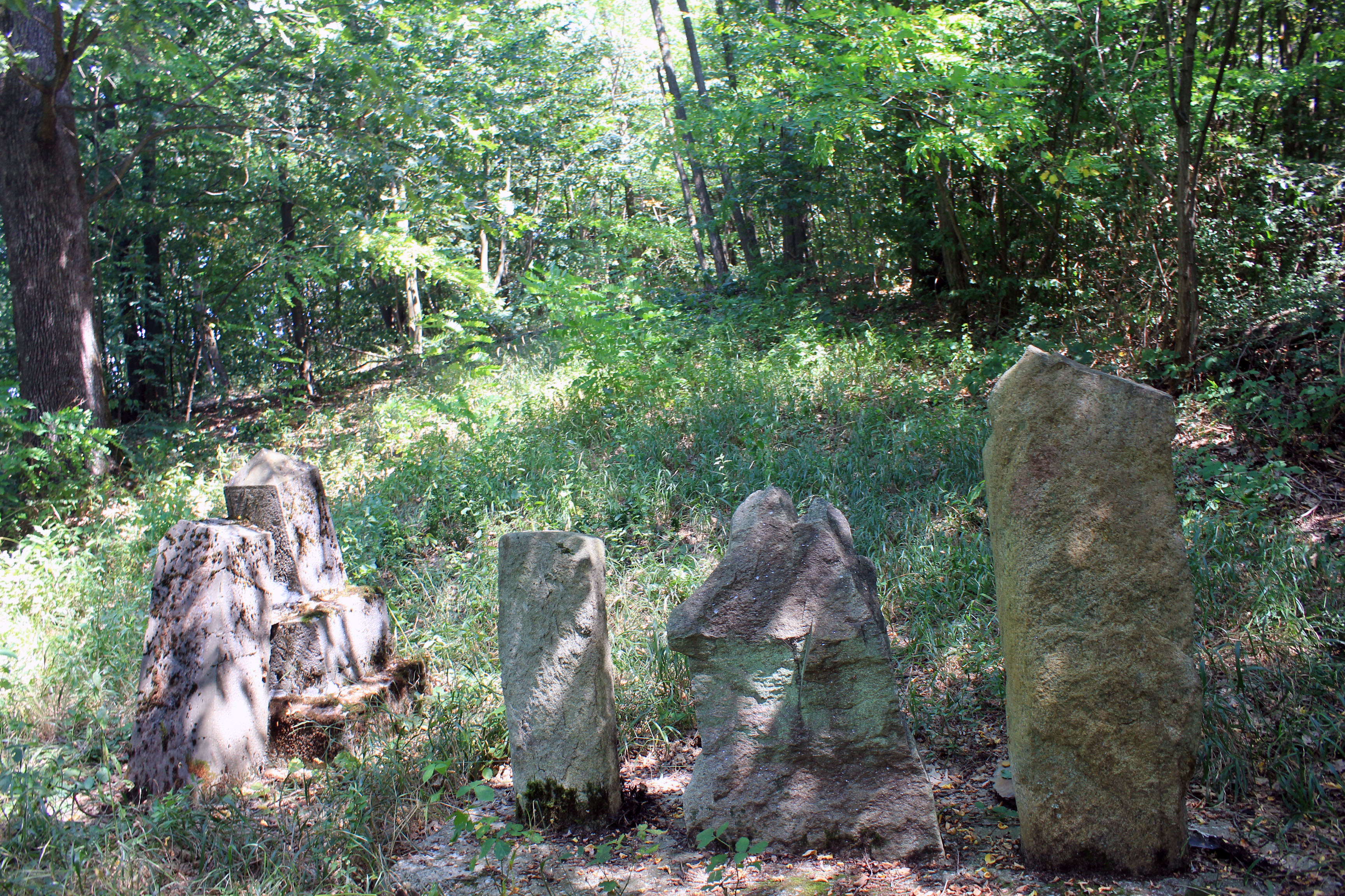 Battle of Čokešina monuments.